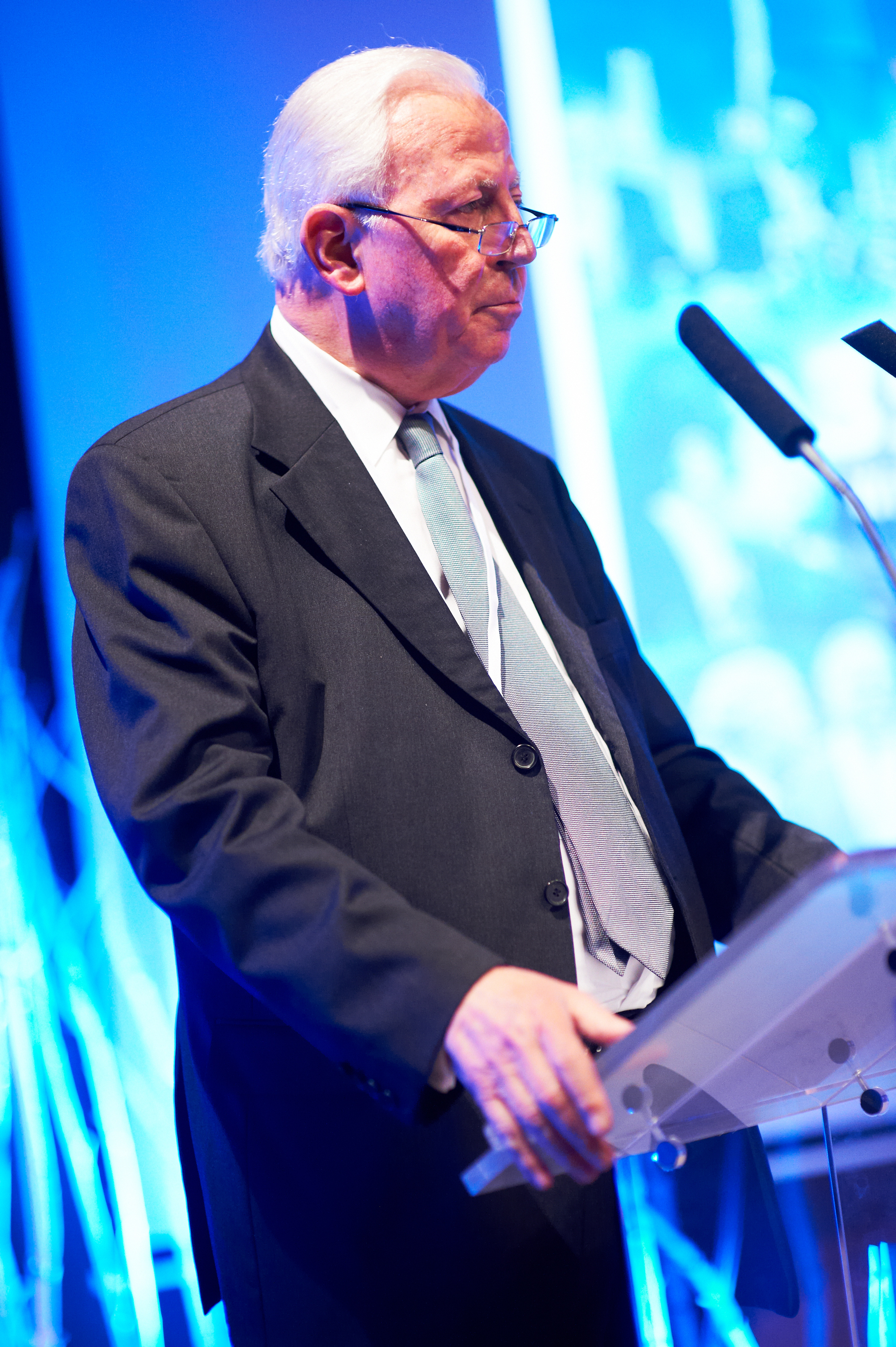 EPP 35th anniversary event